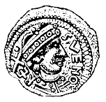 Coin made for Sven III Grate (1125-1157)